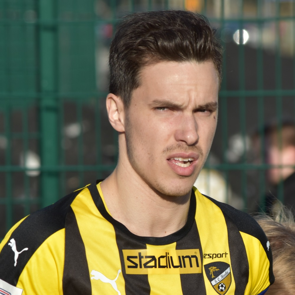 Association football player Duarte Tammilehto (FC Honka)